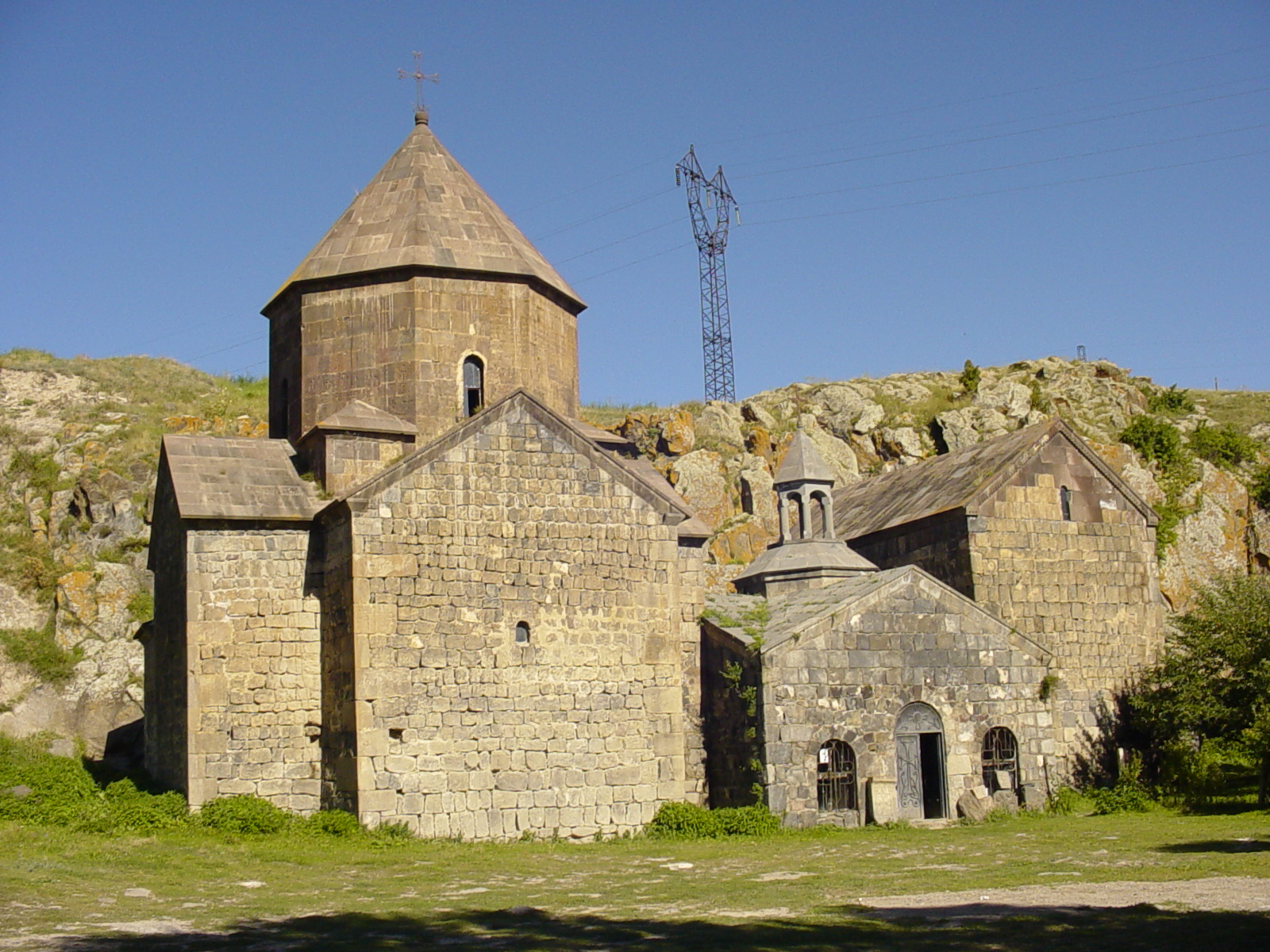 Monastery complex Vanevank, 10-14c.